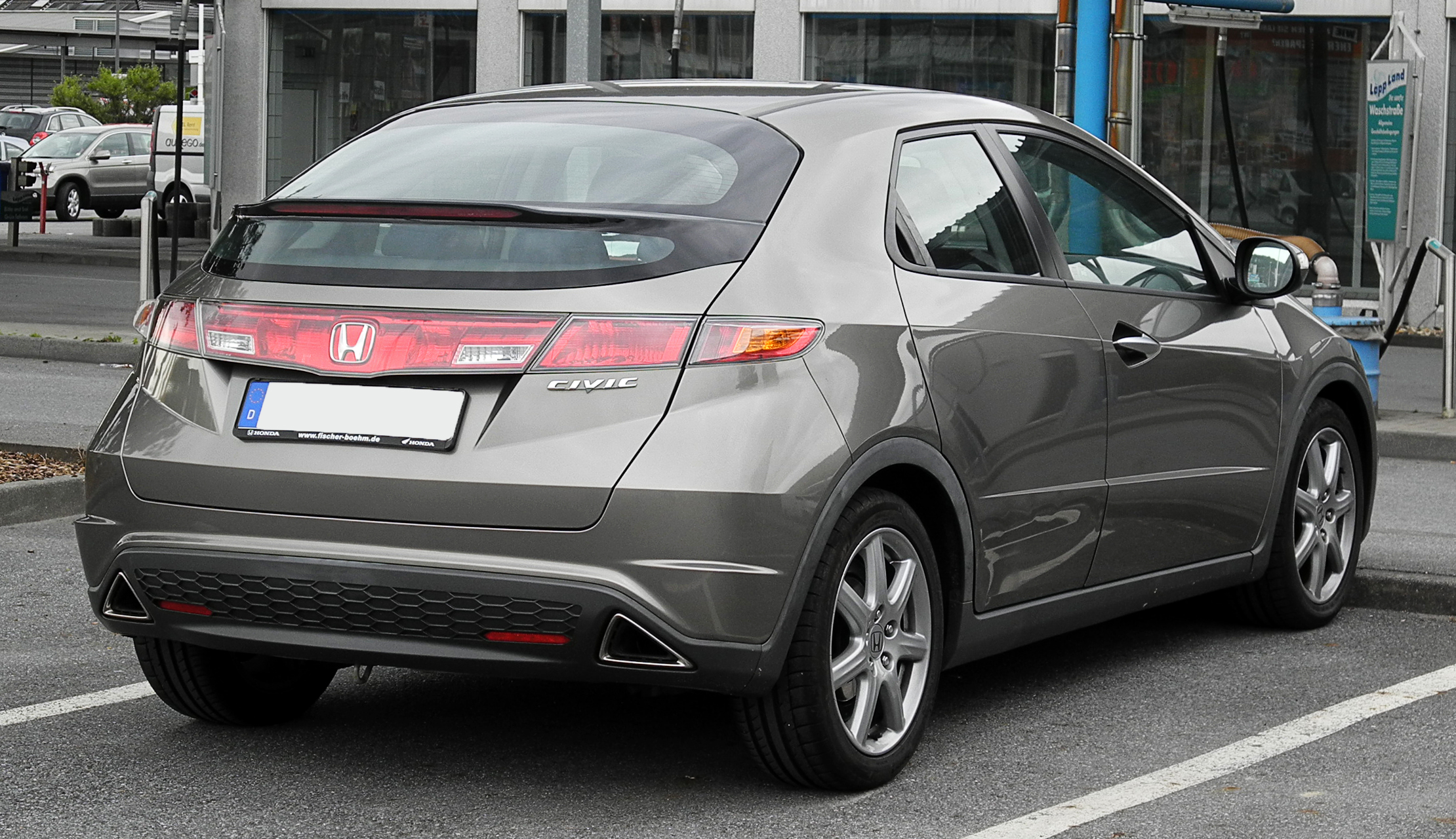 Honda Civic (VIII)